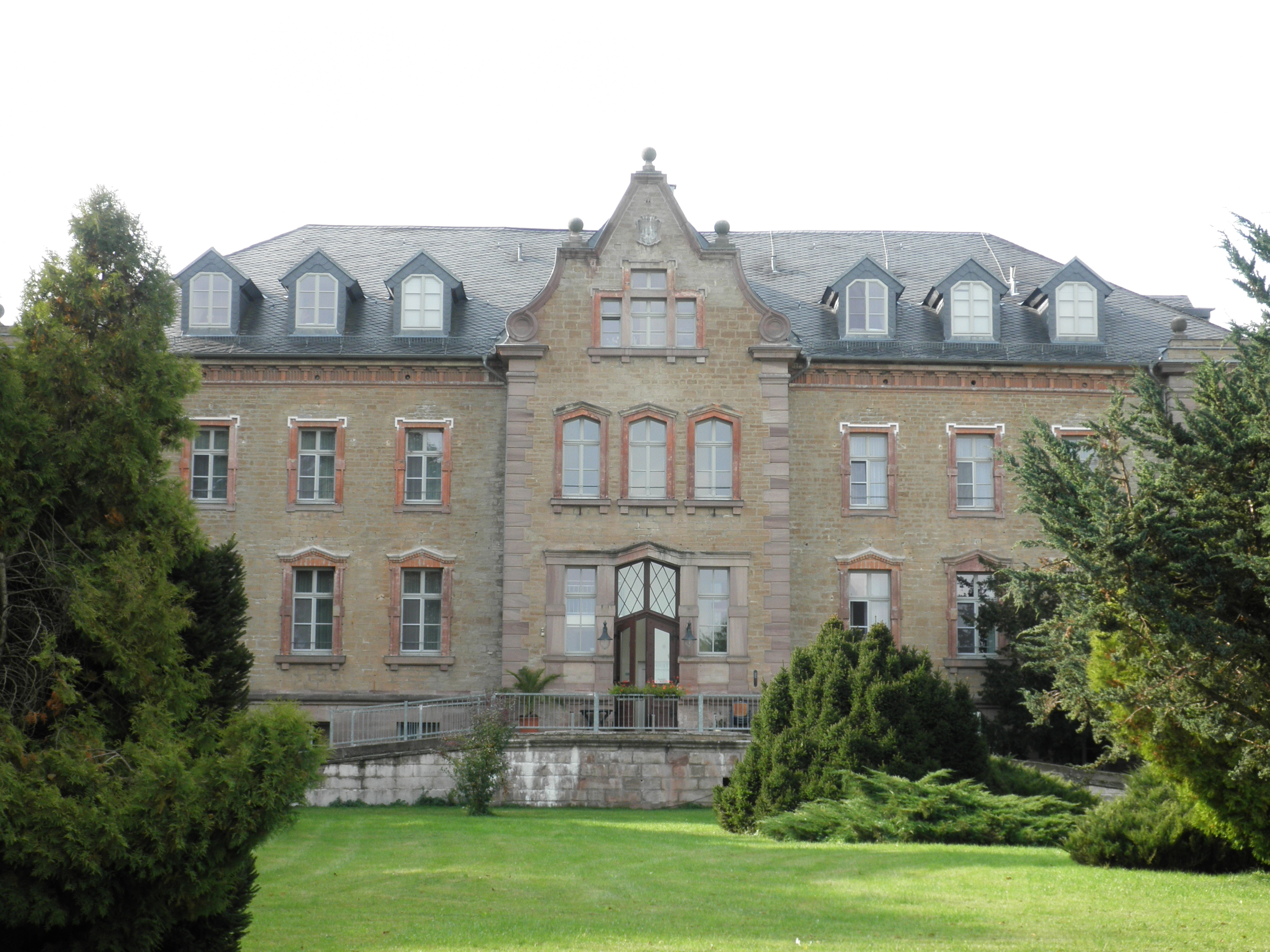 New Castle in Bendeleben / Thuringia